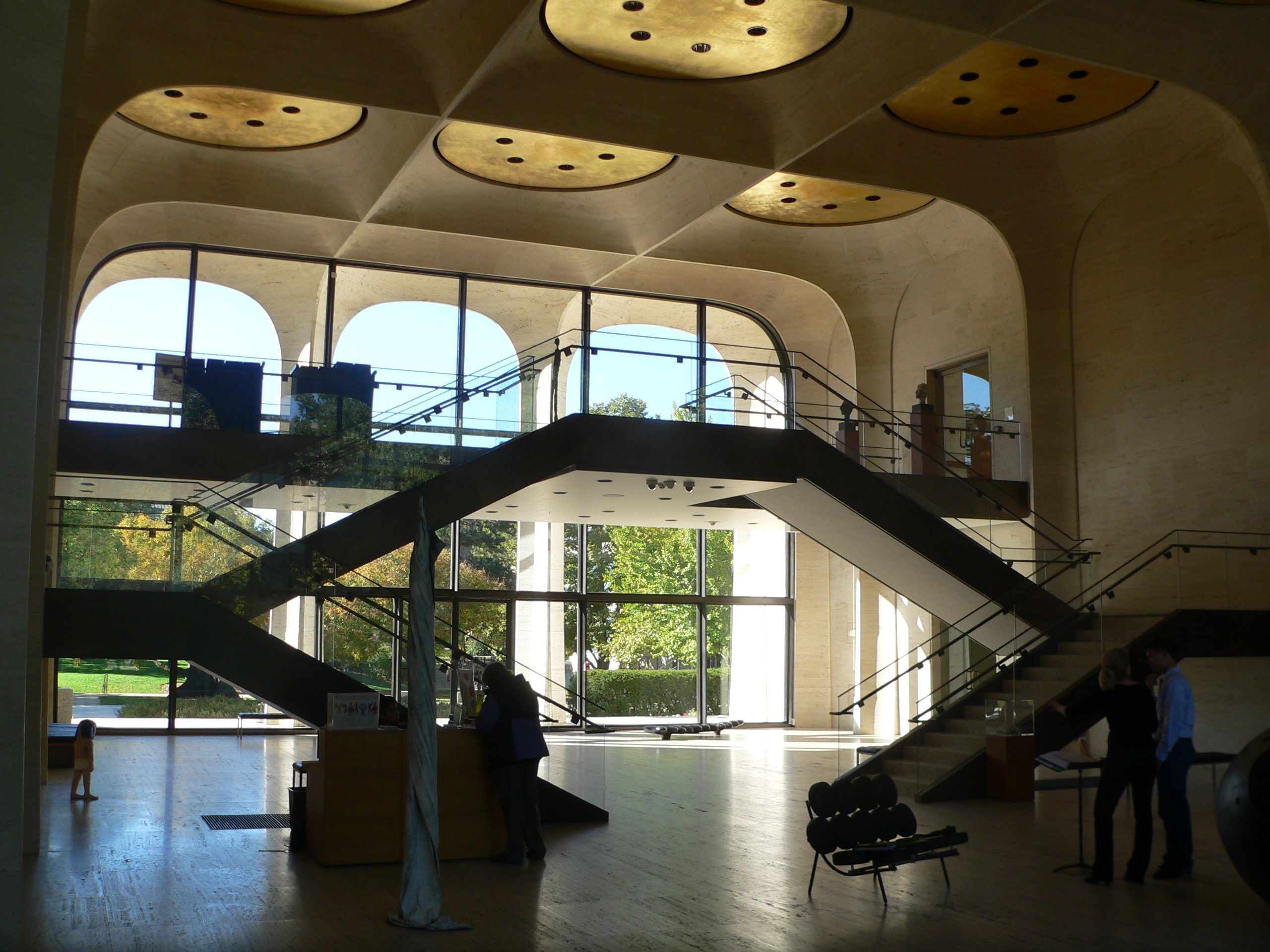 Interior of Sheldon Museum of Art, located on campus of University of Nebraska in Lincoln, Nebraska. Camera is facing northwest from near the east entrance.